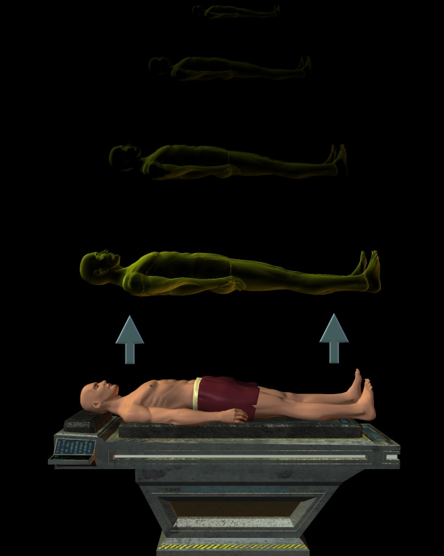 The astral leaves the body